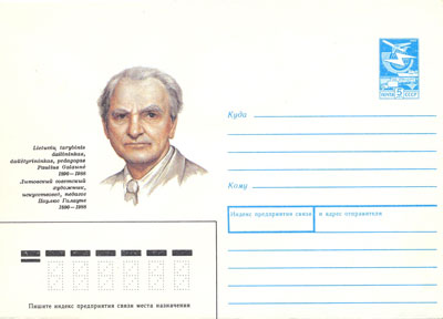 Postal cover issued in memory of Paulius Galaunė by the Lithuanian Socialist republic year after death.